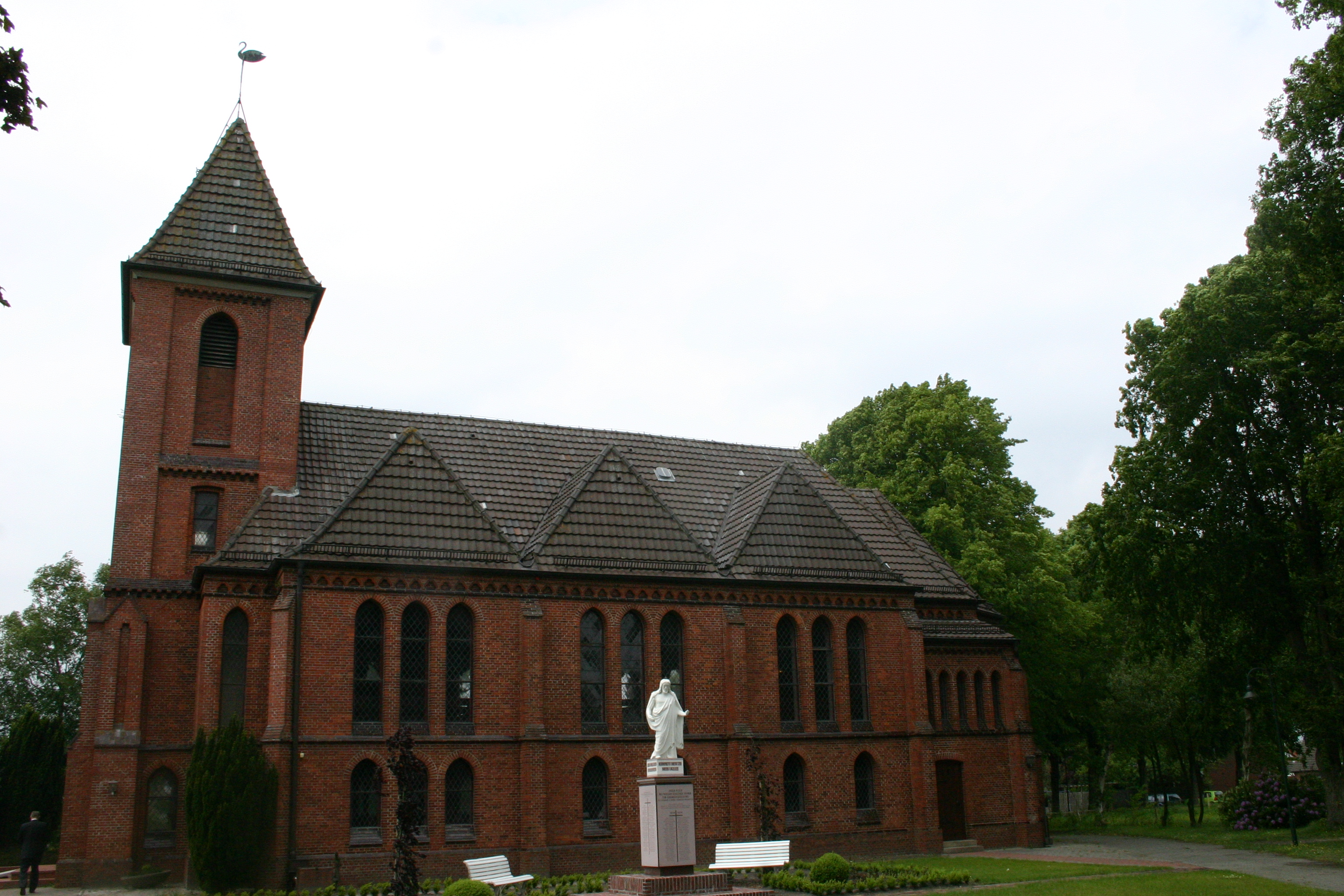 Historic church in Münkeboe, district of Aurich, East Frisia, Germany